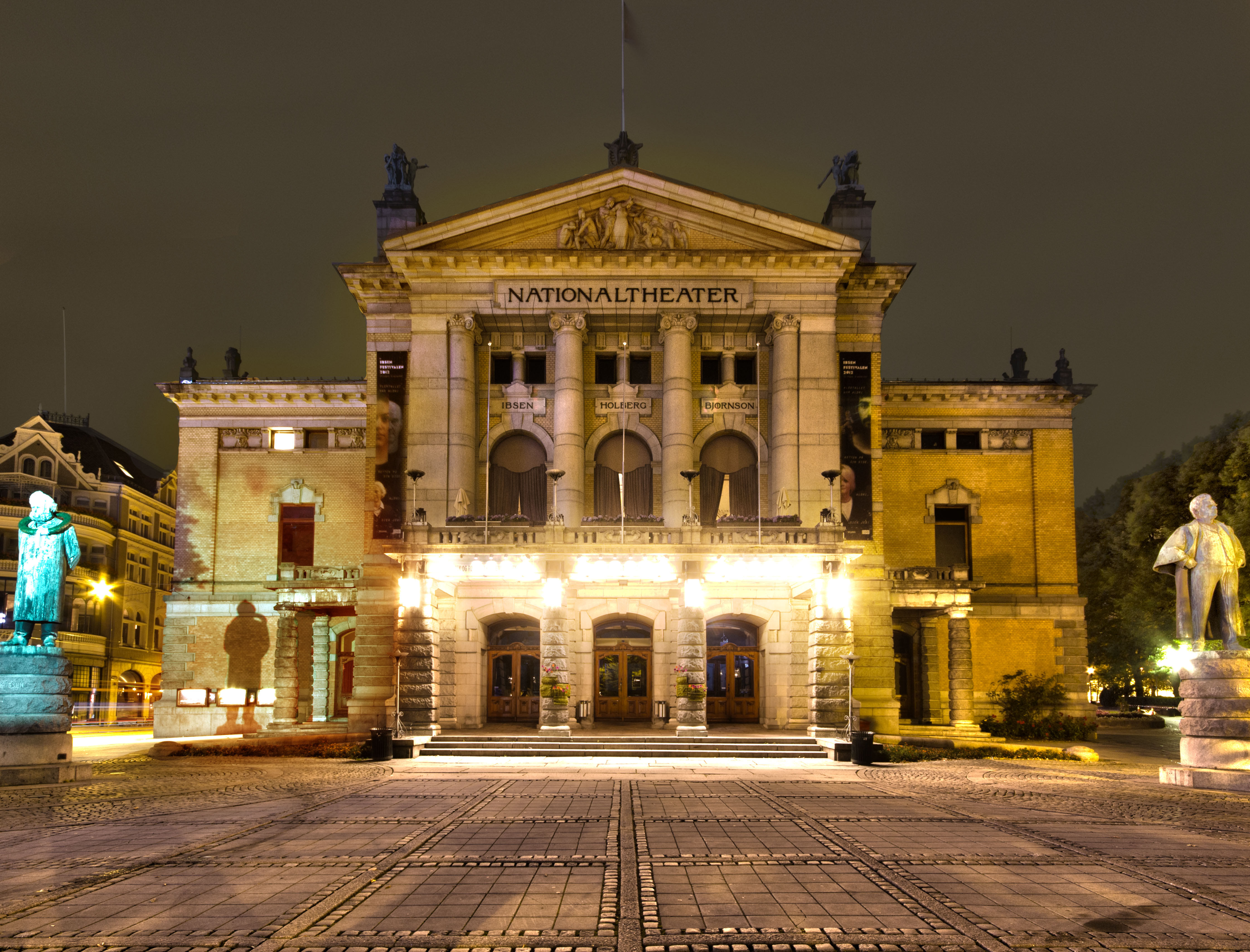 An exposure taken of the front of the Nationaltheatret in Oslo early the morning of Monday September 10th 2012